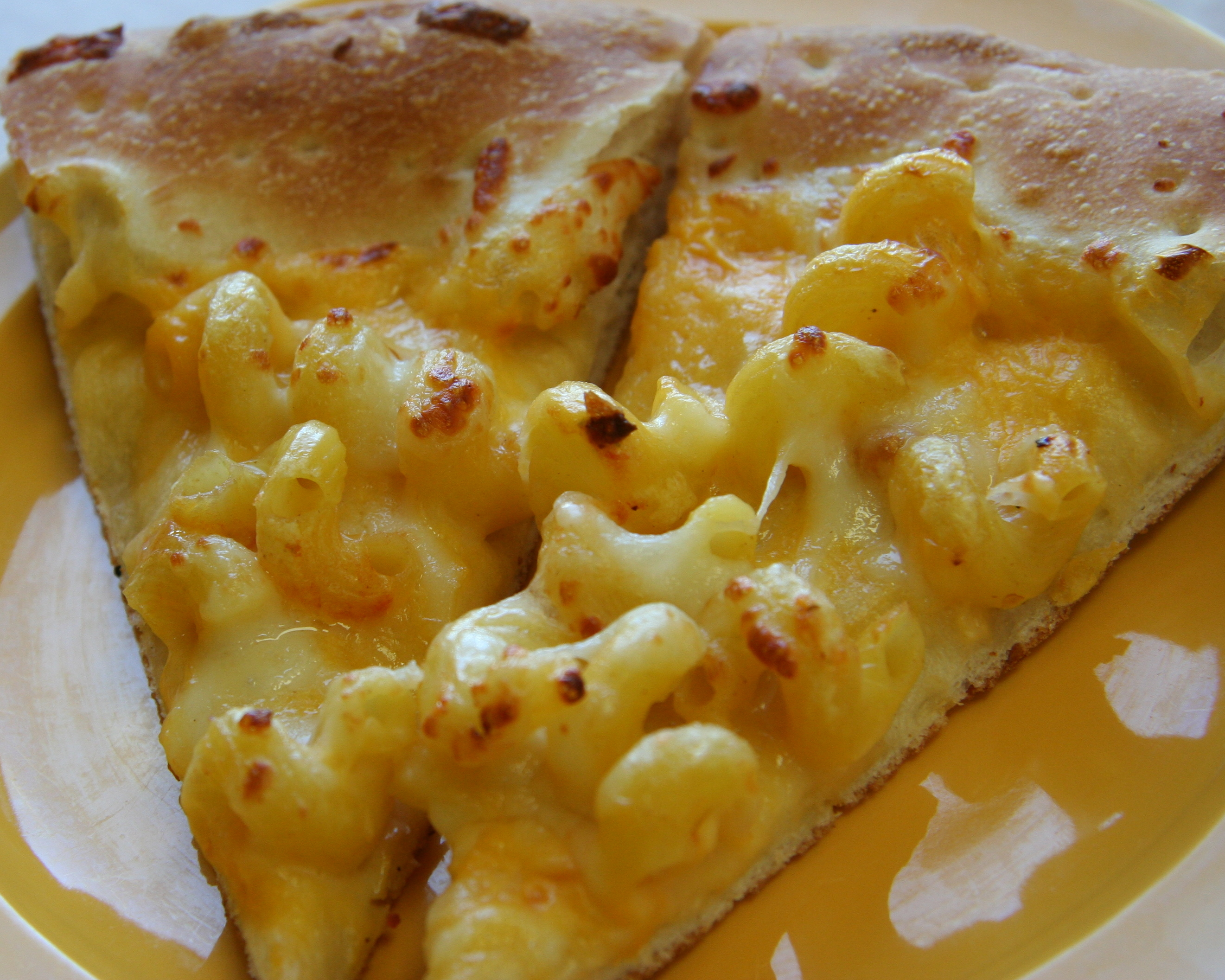 Slices of macaroni and cheese pizza served at CiCi's restaurant in Rochester, Minnesota